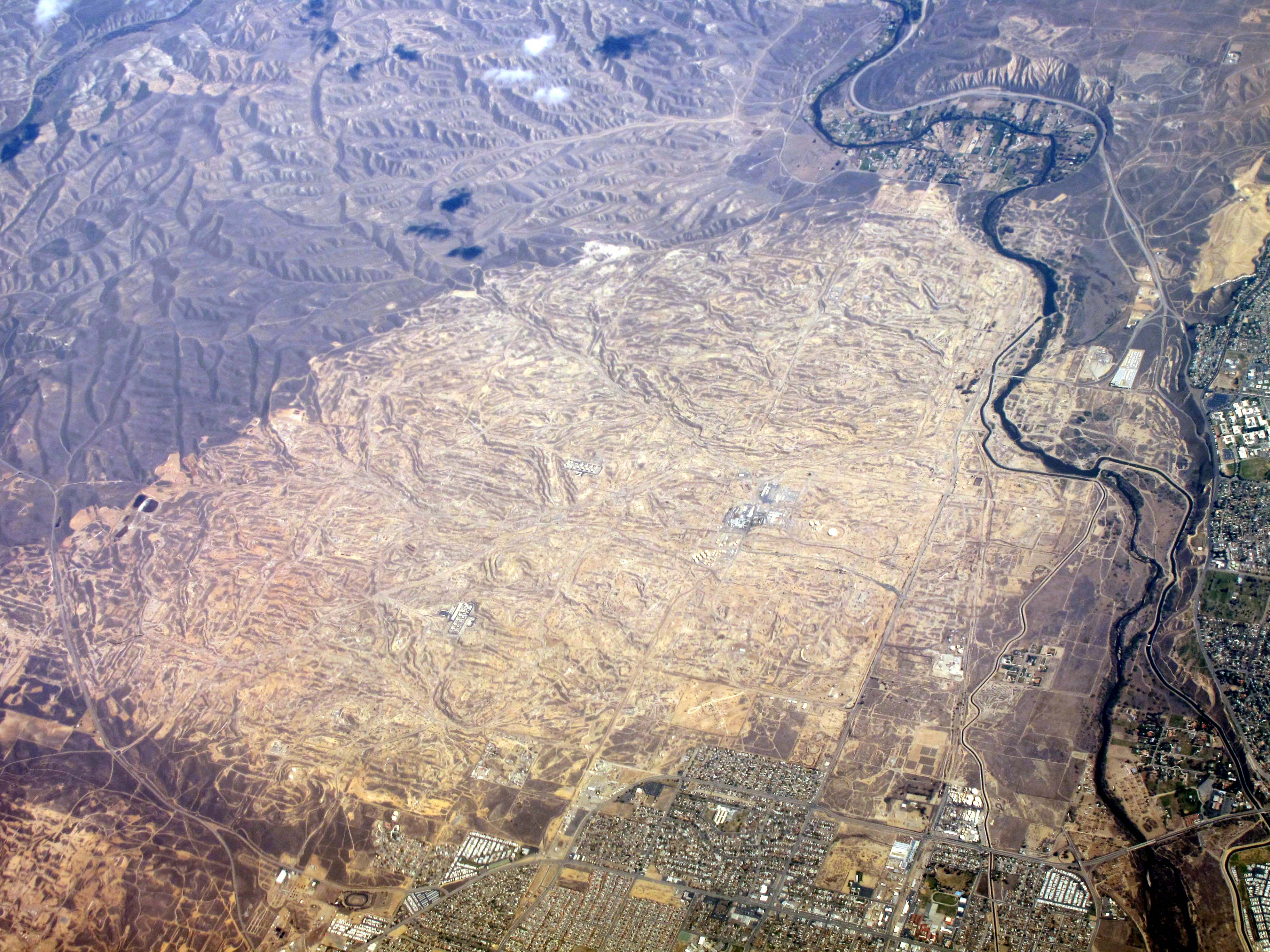 Aerial photograph of the Kern River Oil Field — on the north (left) of the Kern River, in the southeastern San Joaquin Valley outside of Bakersfield, in Kern County, California.